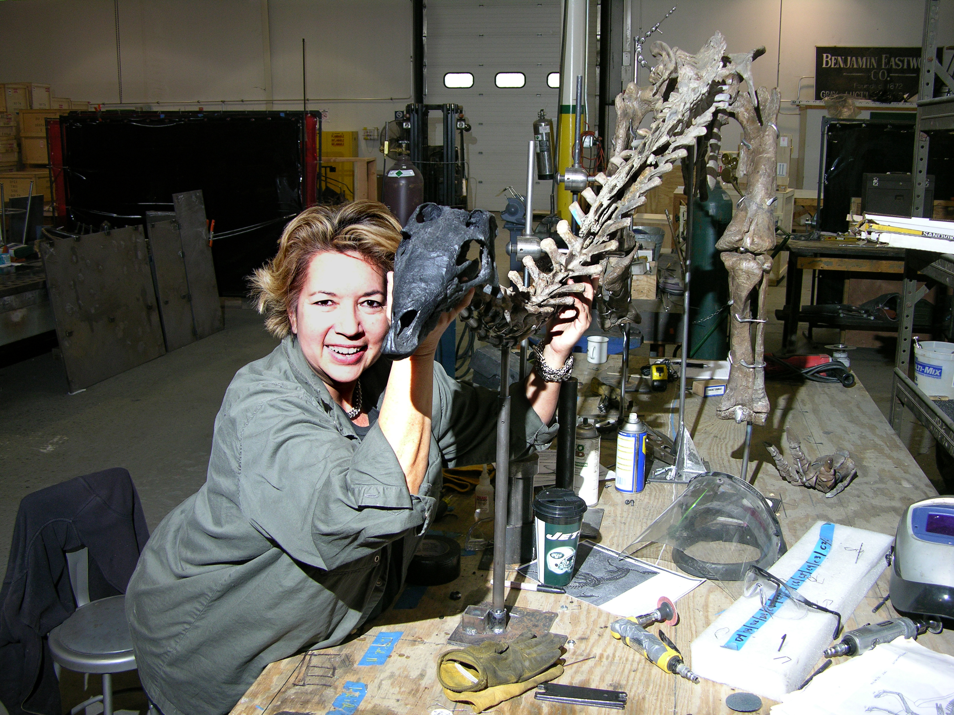 Angela Posada Swafford, author, journalist and special correspondent to Muy Interesante. Shown here with a Dryosaurus fossil at Phil Fraley Productions Studio in Paterson, NJ.